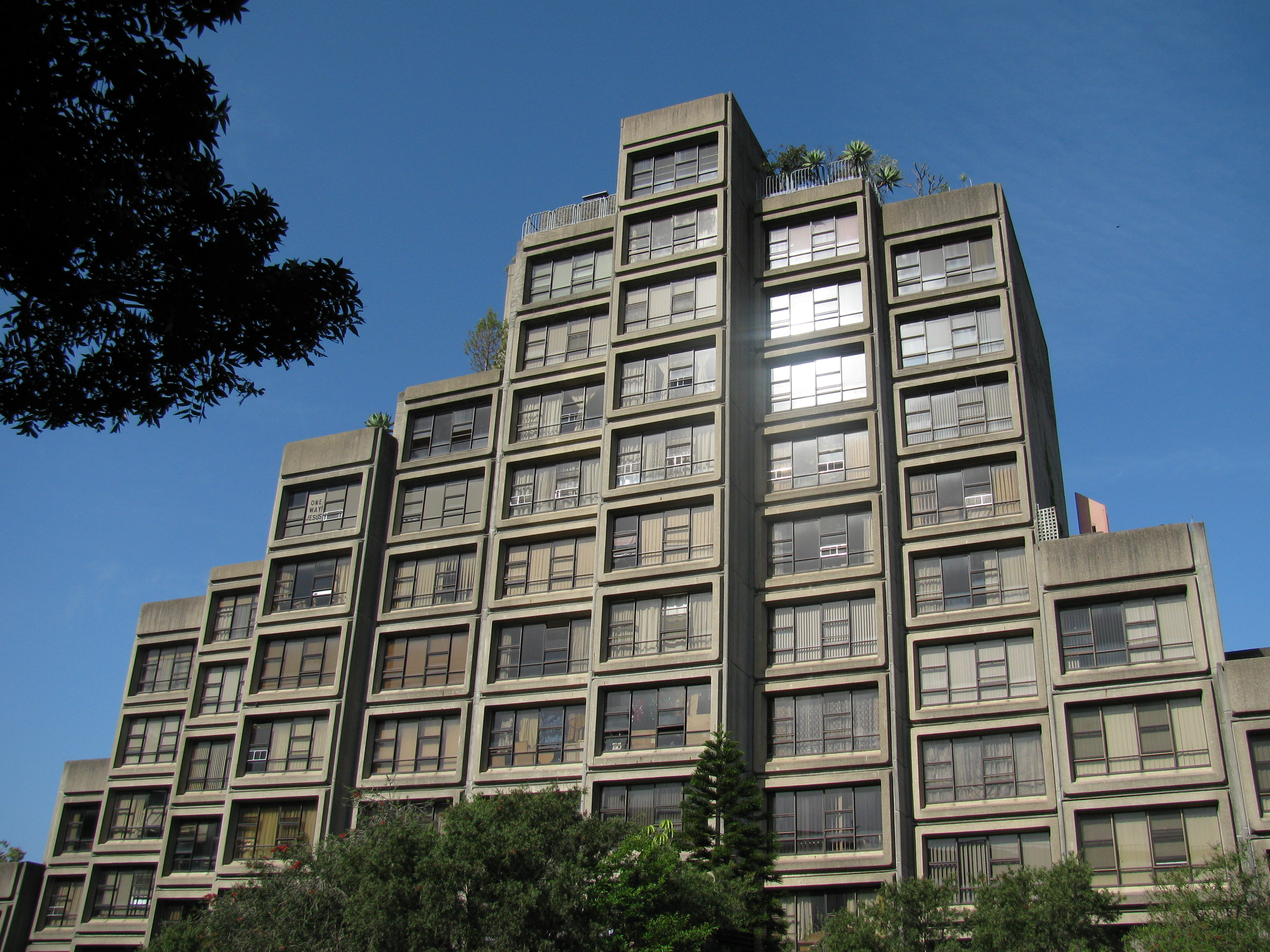 Sirius